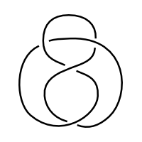 This picture shows the regular presentation of figure eight knot. The knot is a basic example of nontrivial knot in knot theory (mathematics). The regular representation, commonly used in the theory to indicate knots, represents projection onto 2-dimensional plane of the knot. At each intersection, the below string is split a bit to indicate how the strings are arranged at that point.